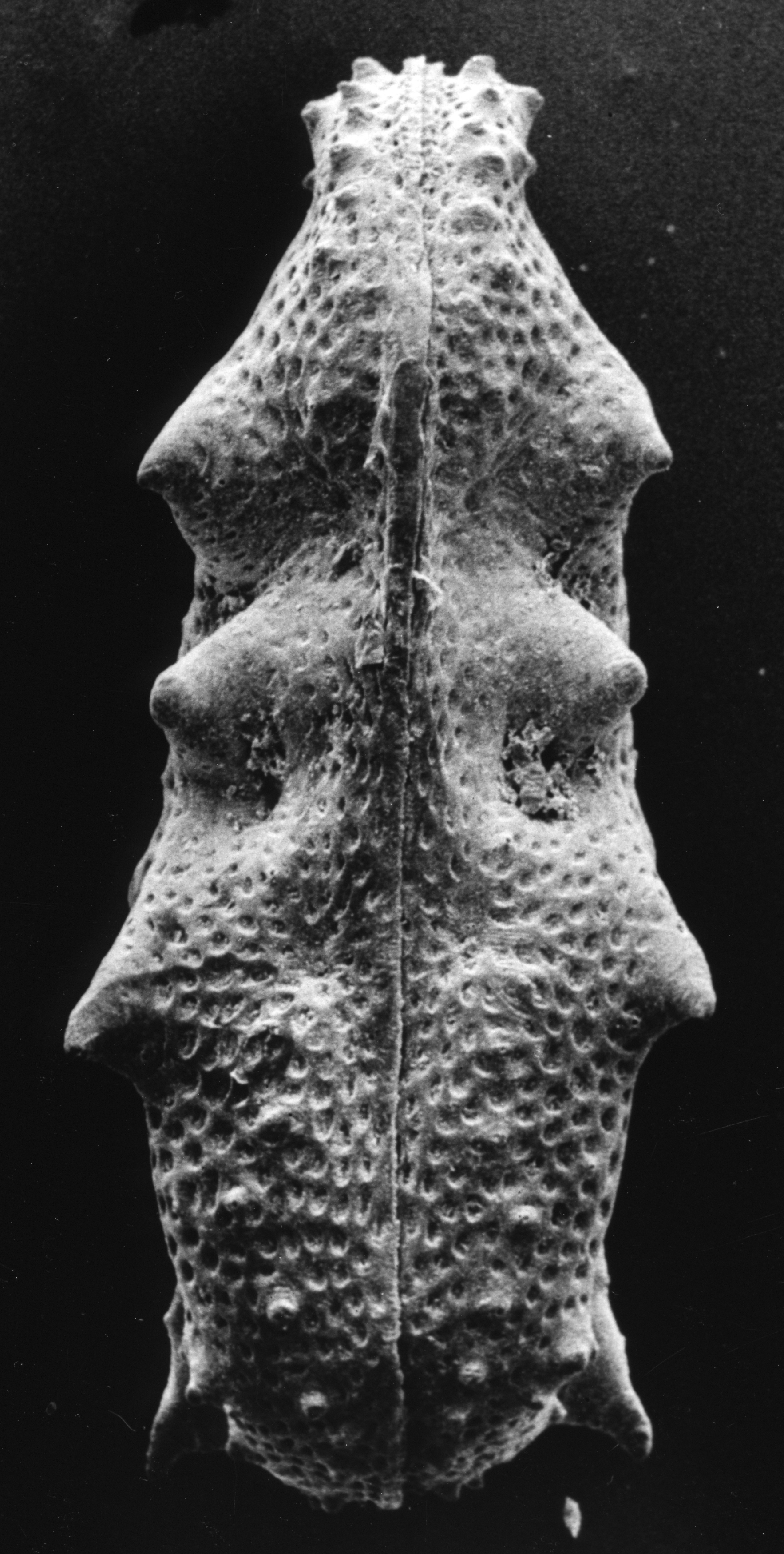 Dorsal view of female carapace of Juxilyocypris schwarzbachi (Kempf, 1967) Kempf, 2011. Specimen from Middle Pleistocene loess sediments of clay pit Kärlich near Koblenz, Germany. Scanning Electron Micrograph (SEM). Size = 0.825 x 0.380 mm.